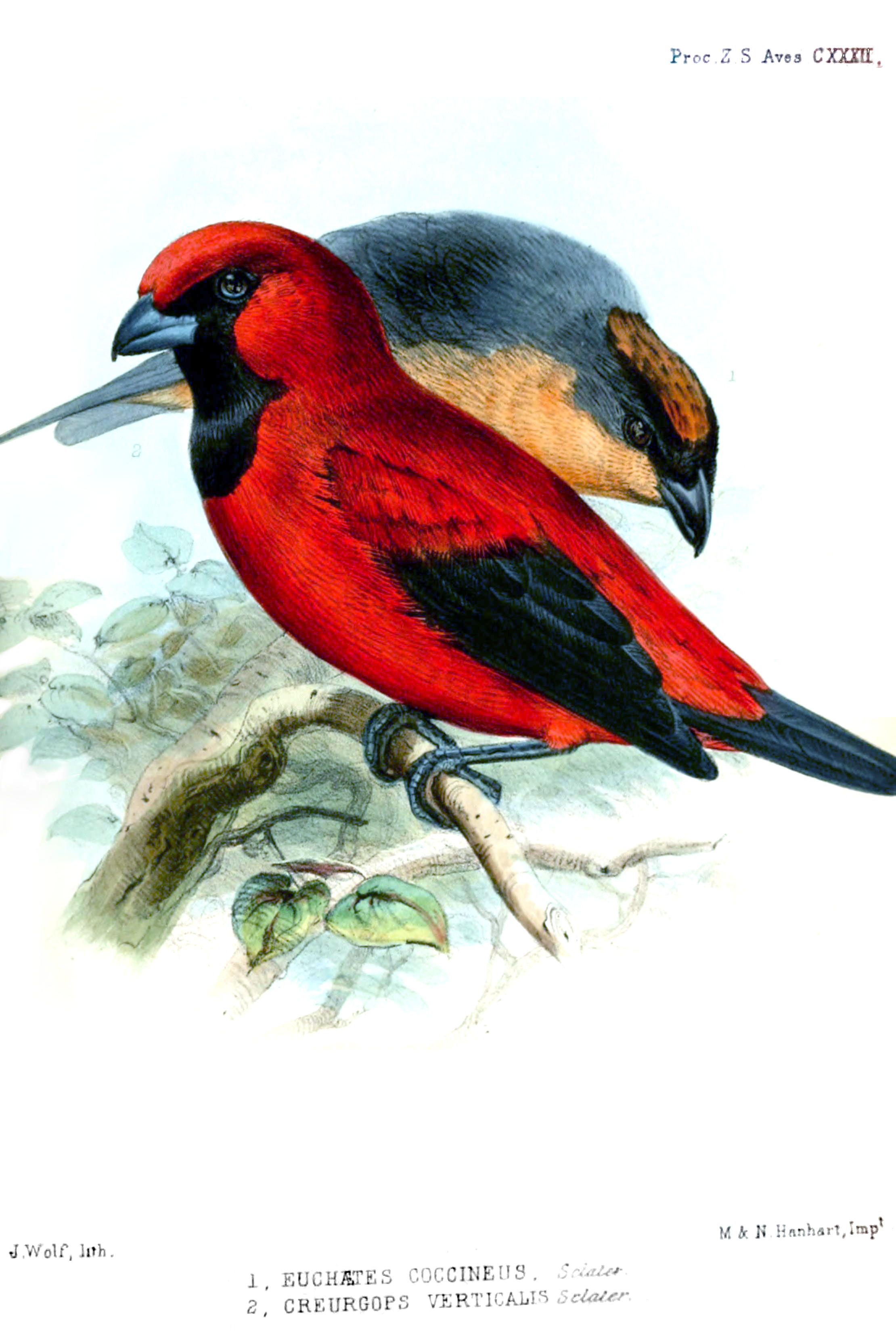 foreground: Euchaetes coccineus (=Calochaetes coccineus) & background: Creurgops verticalis